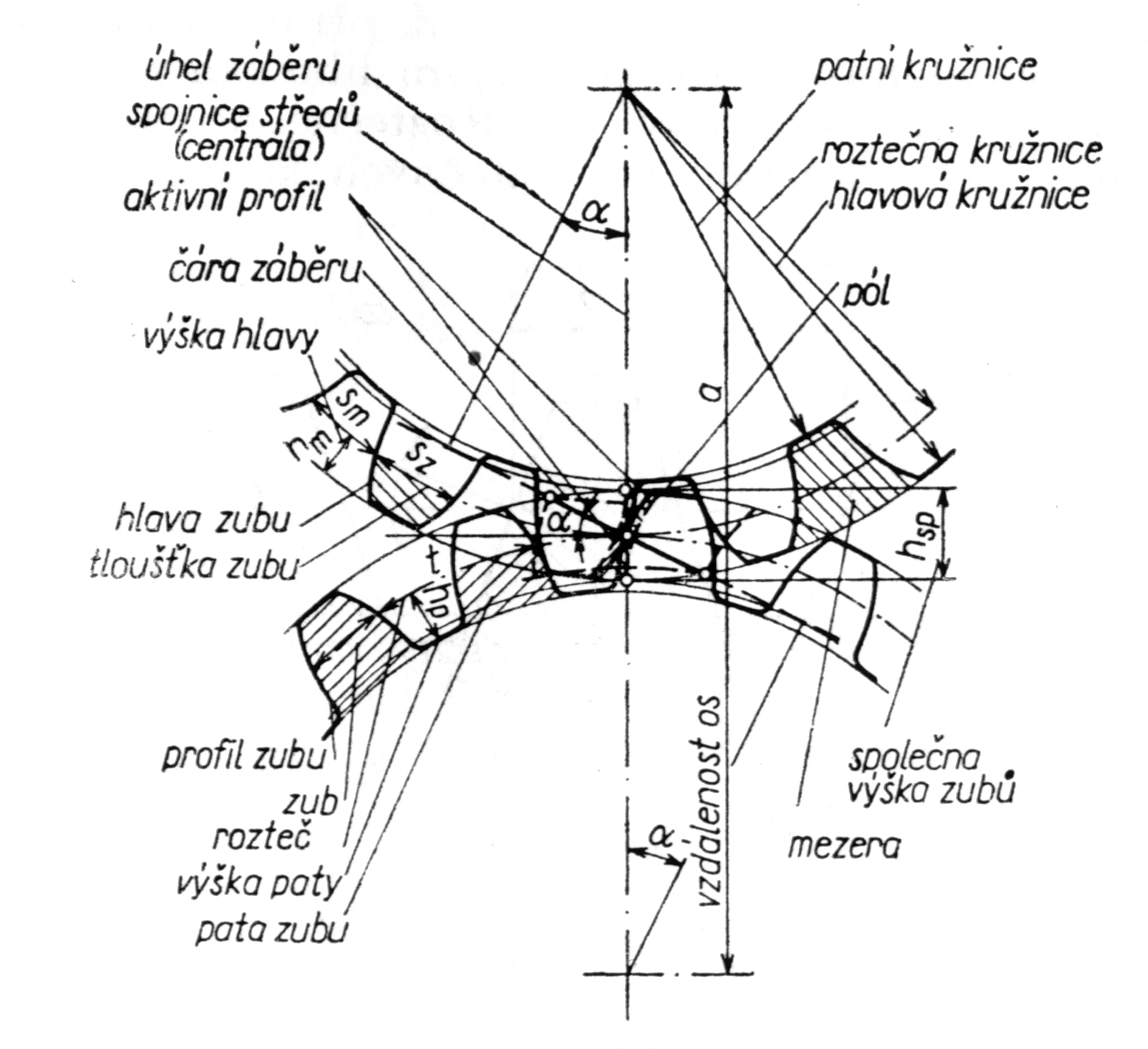 Sprocket Wheel